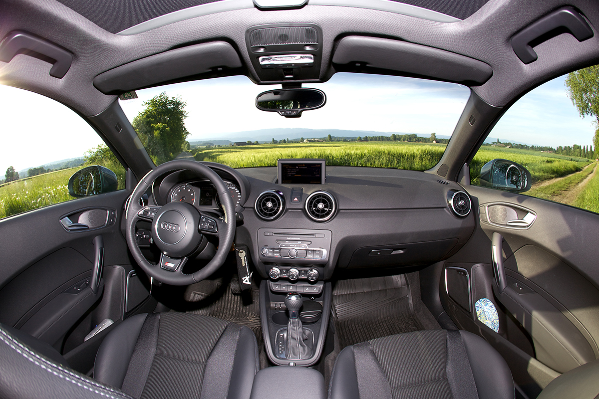 Interior of an Audi A1 Qafár af: A1 Cockpit